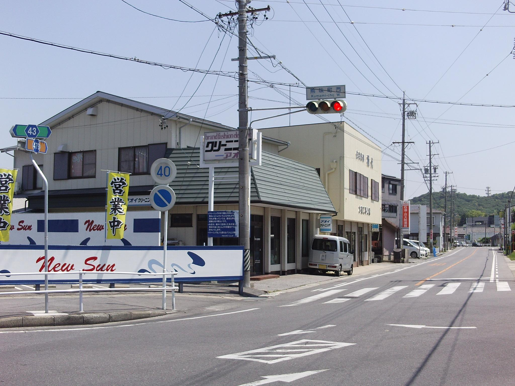 Aichi prefectural road No.479 in Kumamicho, Nishio, Aichi.